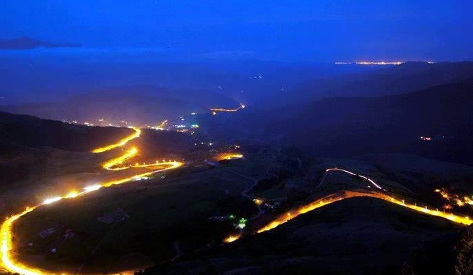 حئیران گرده نه سی